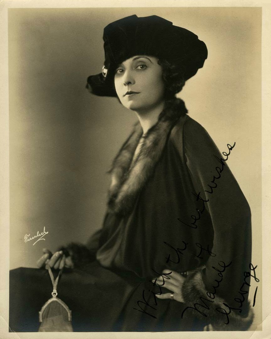 Portrait of American actress Maude George (1888–1963) by American photographer Jack Freulich.